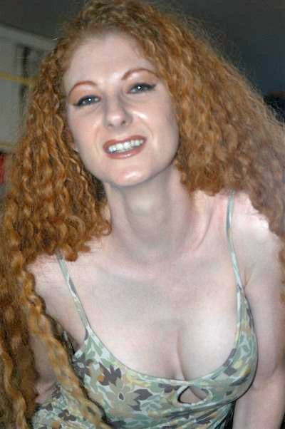 Annie Body at a World Modelling talent call